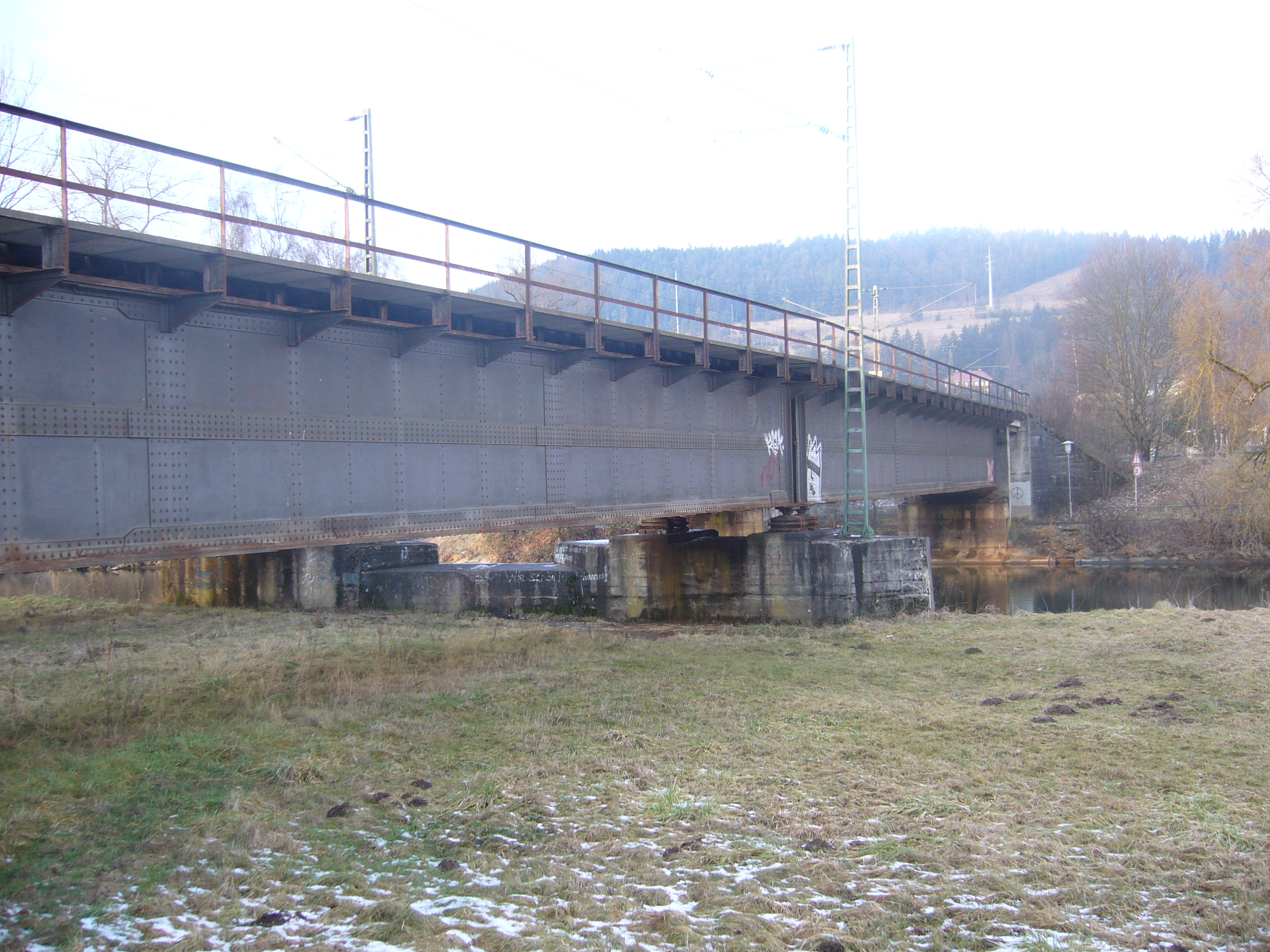 Railway bridge of the Gäubahn Railway Line bridging the Danube River in Tuttlingen, Germany